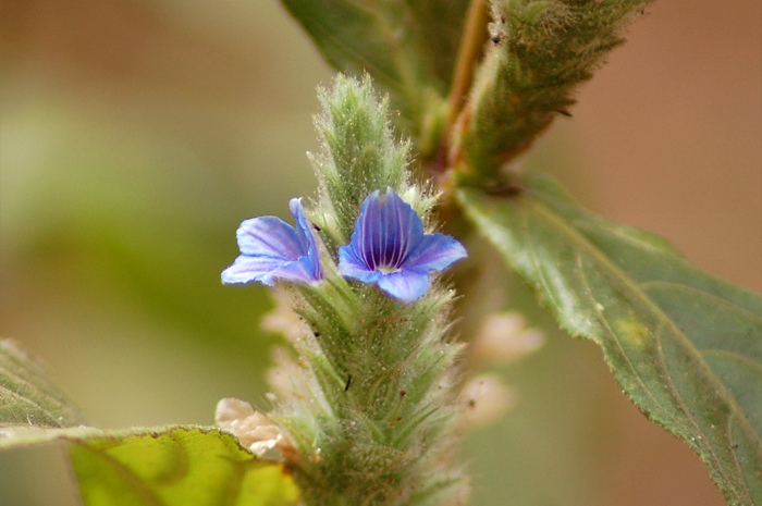 Flowers of Neuracanthus trinervius. A sibling of the Pin-Cushion Plant, apart from colour of the flowers, it differs from its sibling in the fact that it lacks the densely hairy bracts.